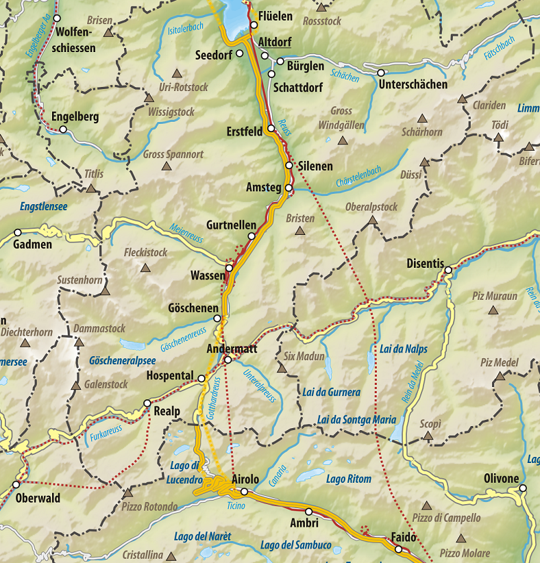 This map was created from "Reliefkarte_Schweiz.png". It shows the places that are relevant to the Battle of Gotthard Pass, 24-26 September 1799.